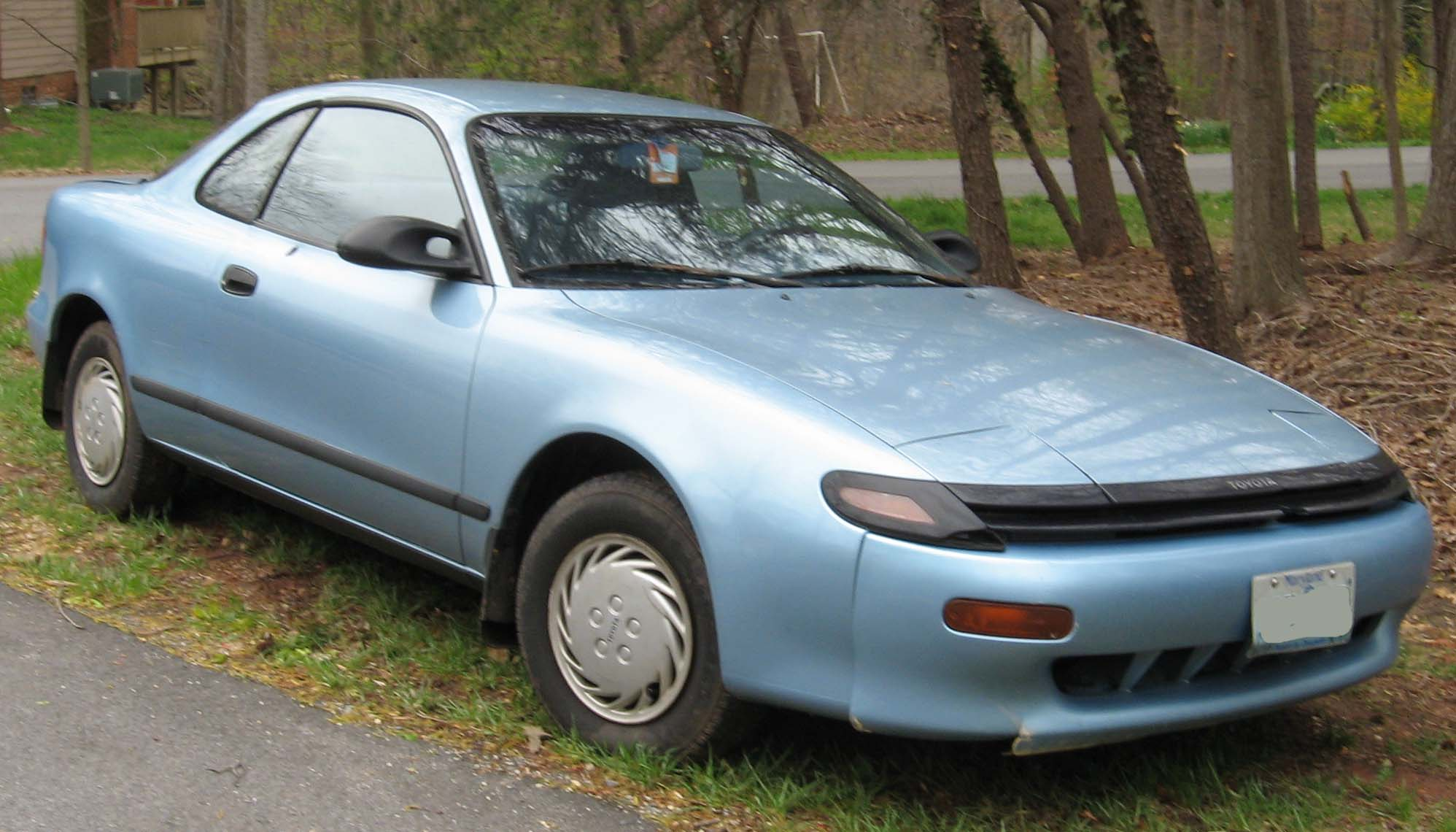 1990 Toyota Celica 1.6 ST Coupe (AT180) photographed in USA.